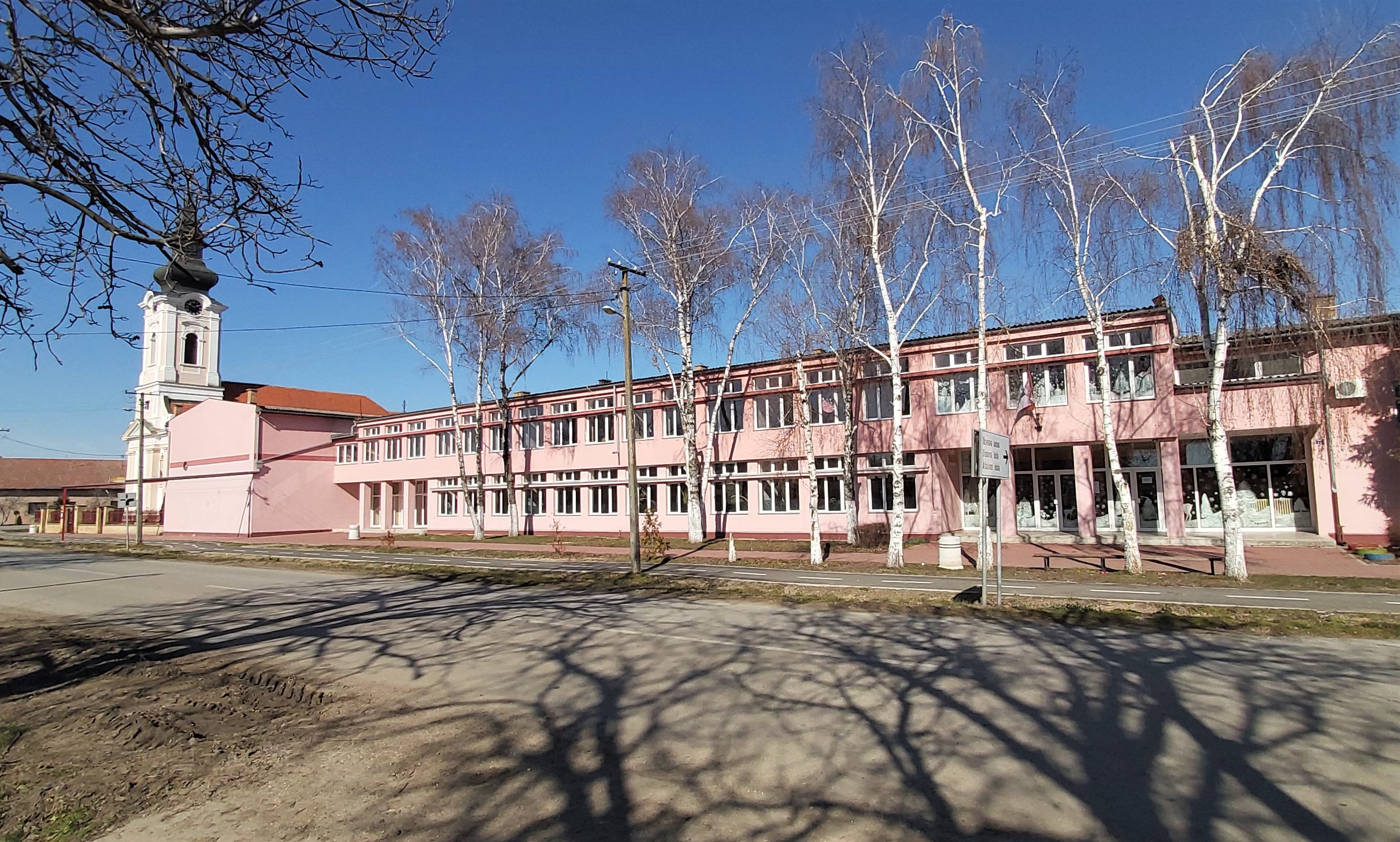 School and church in Srpski Krstur Srpski (latinica): Škola i crkva u Srpskom Krsturu